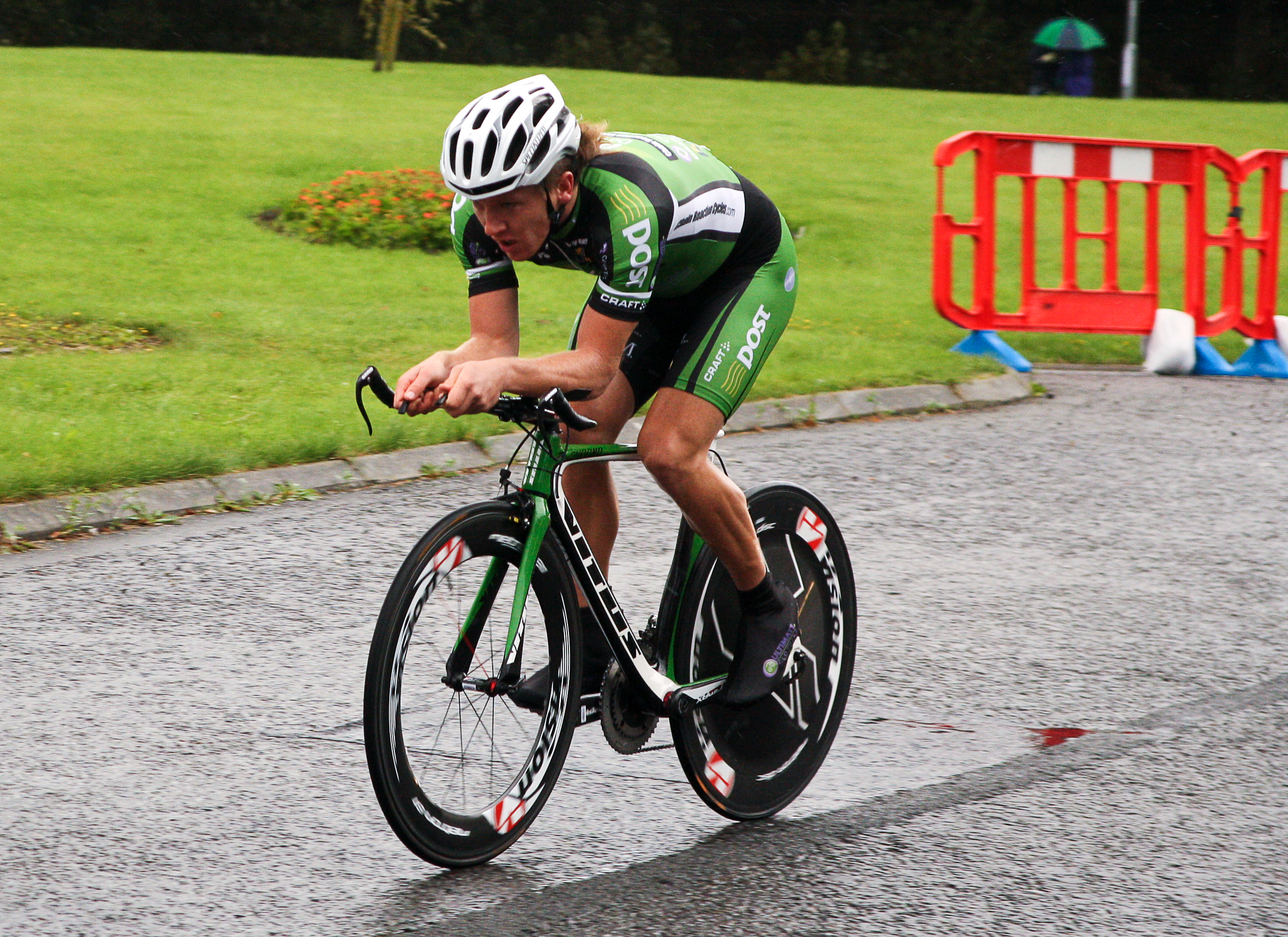 Shane Archbold